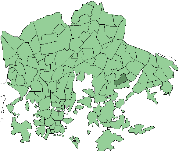 Districts of Helsinki, Itäkeskus highlighted